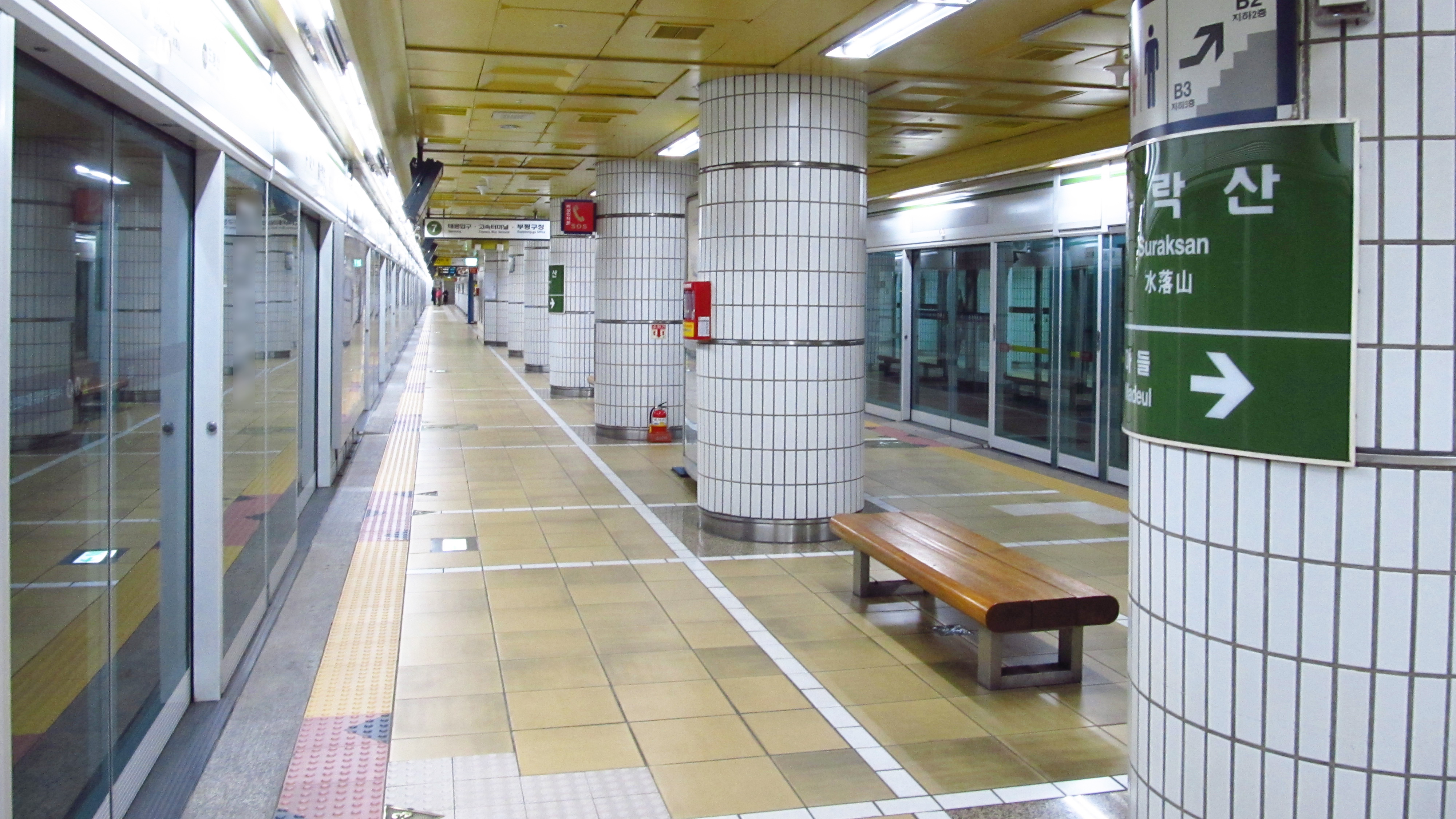 The platform at Suraksan Station on Seoul Subway Line 7 in Nowon-gu, Seoul, Republic of Korea(South Korea)